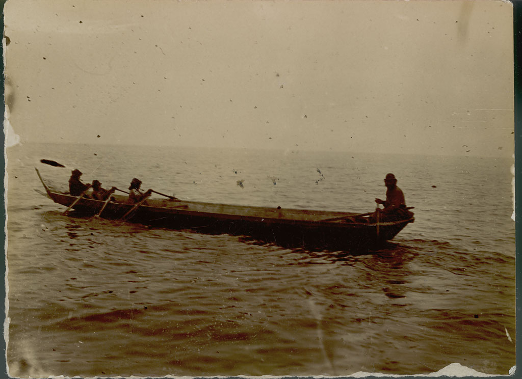 Nivkh canoe.